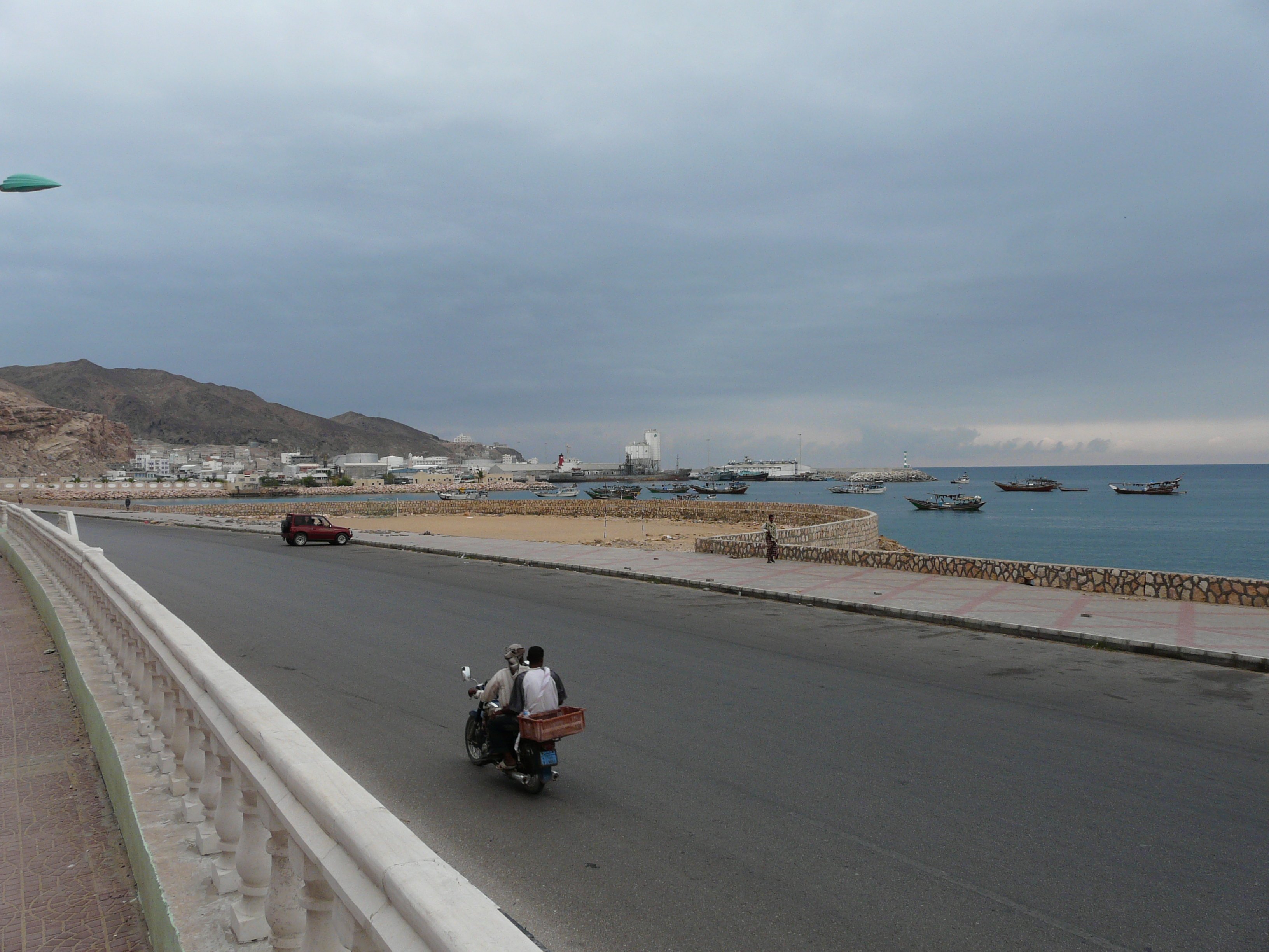 Mukalla port (Yemen). View from the route between port and town, which named Khalf Street. Cement carrier "Olympic Carrier" (gray hull, white superstructure and red funnel) is alongside. Tanks of "RAYSUT" cement company (factory in port) behind the cement carrier. Oil tanks are on the port side and behind. There are plenty of fishing vessels in port and at anchor close to the port entrance.